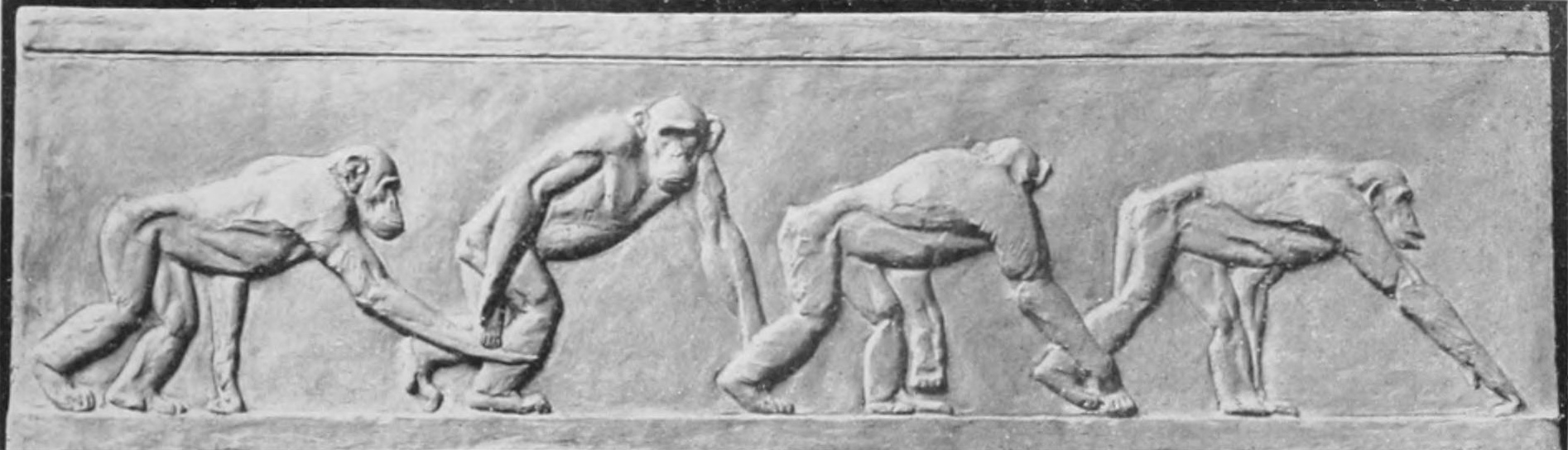 Chimpanzees